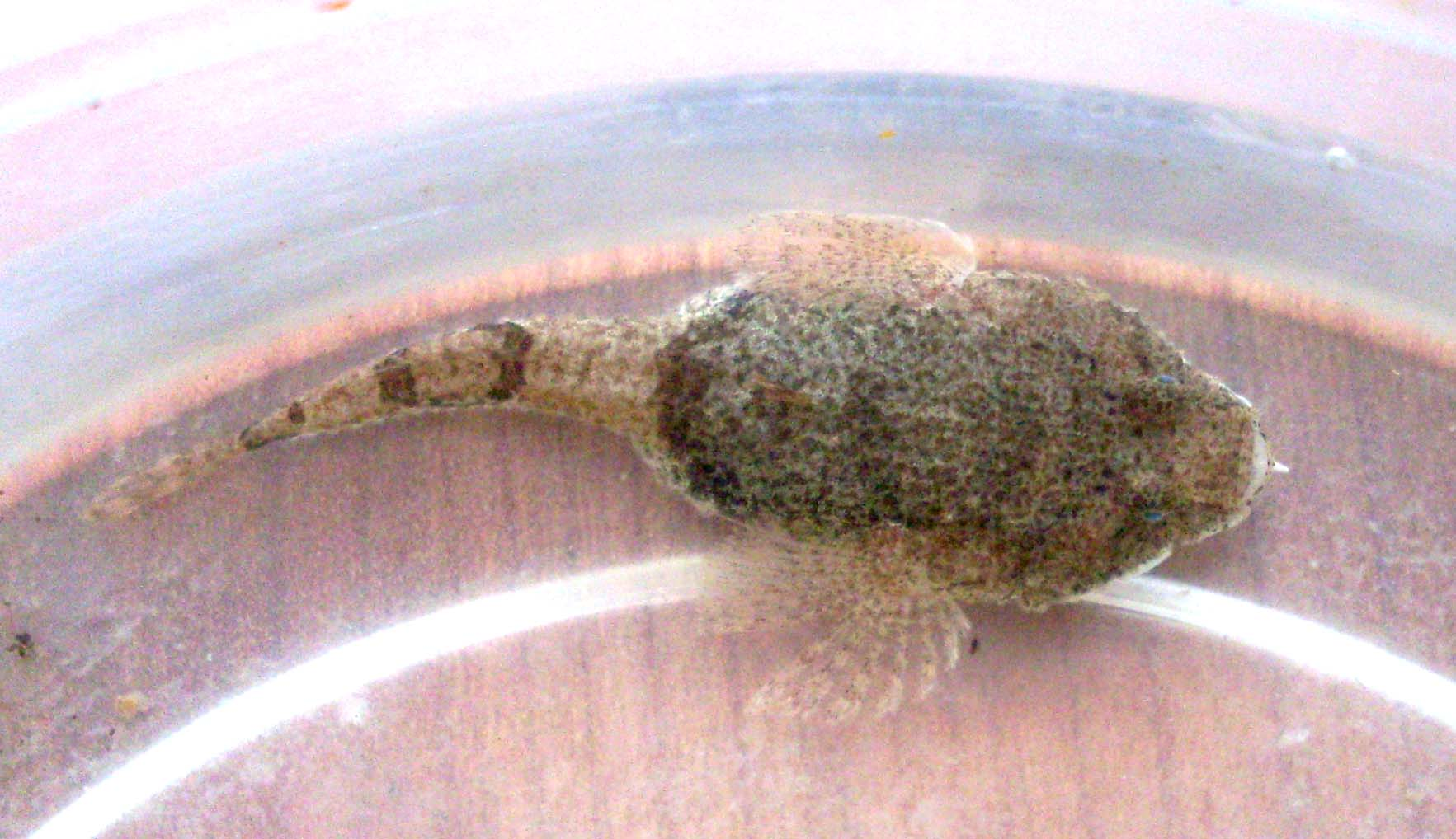 Black Sea tadpole-goby (Benthophilus nudus) from the Dnieper River near Kiev, Ukraine